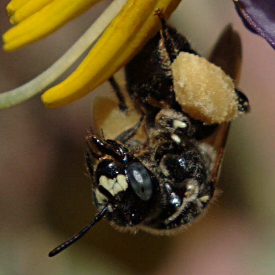 Female mining bee of the subfamily Panurginae, Protandrena mexicanorum, carrying pollen, on Solanum elaeagnifolium flower, my yard, Española, New Mexico. Bee was perhaps 5 mm long. Thanks to John Ascher for identifying it at this BugGuide page.